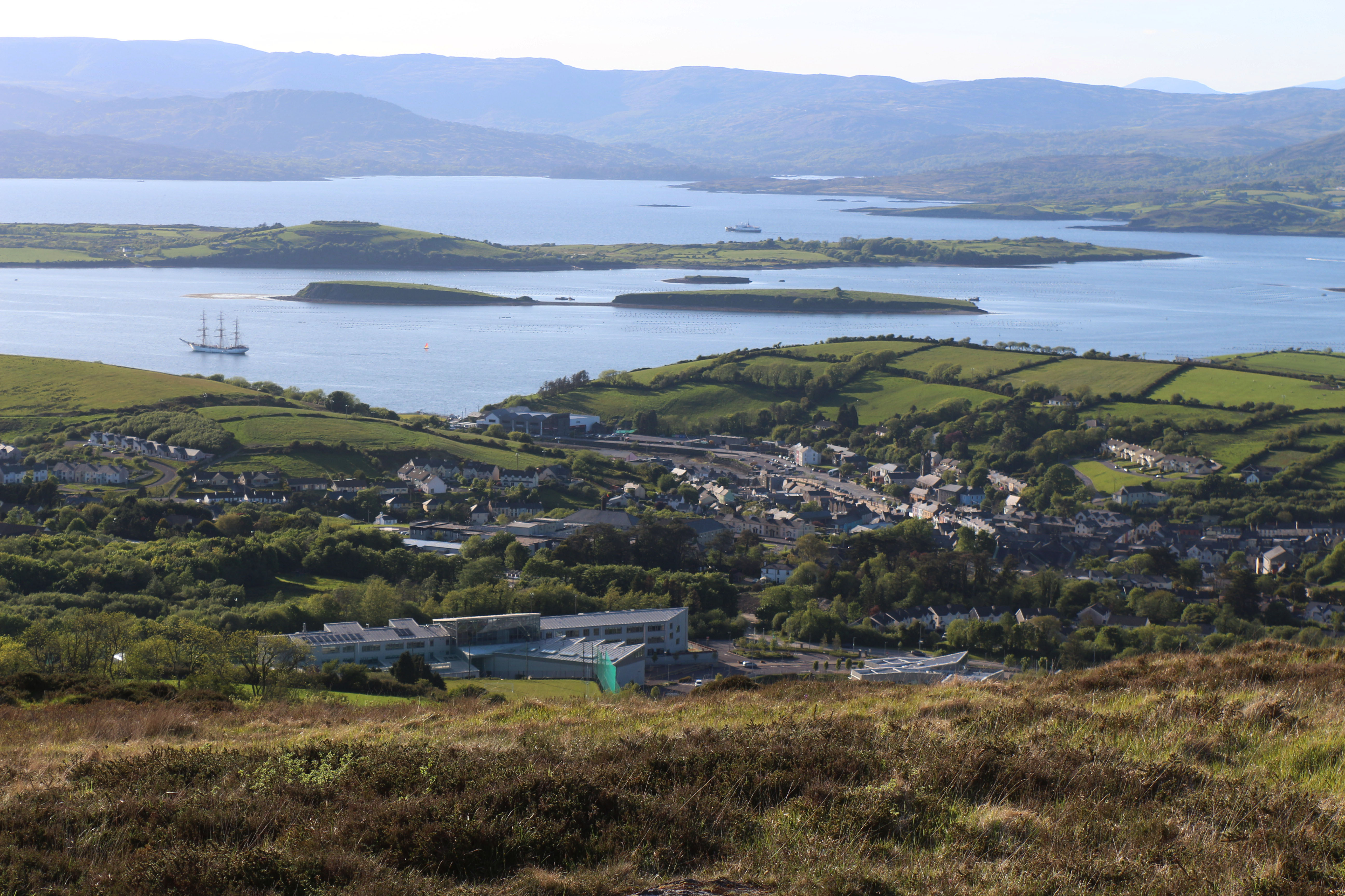 Bantry from above, The Wild Atlantic View